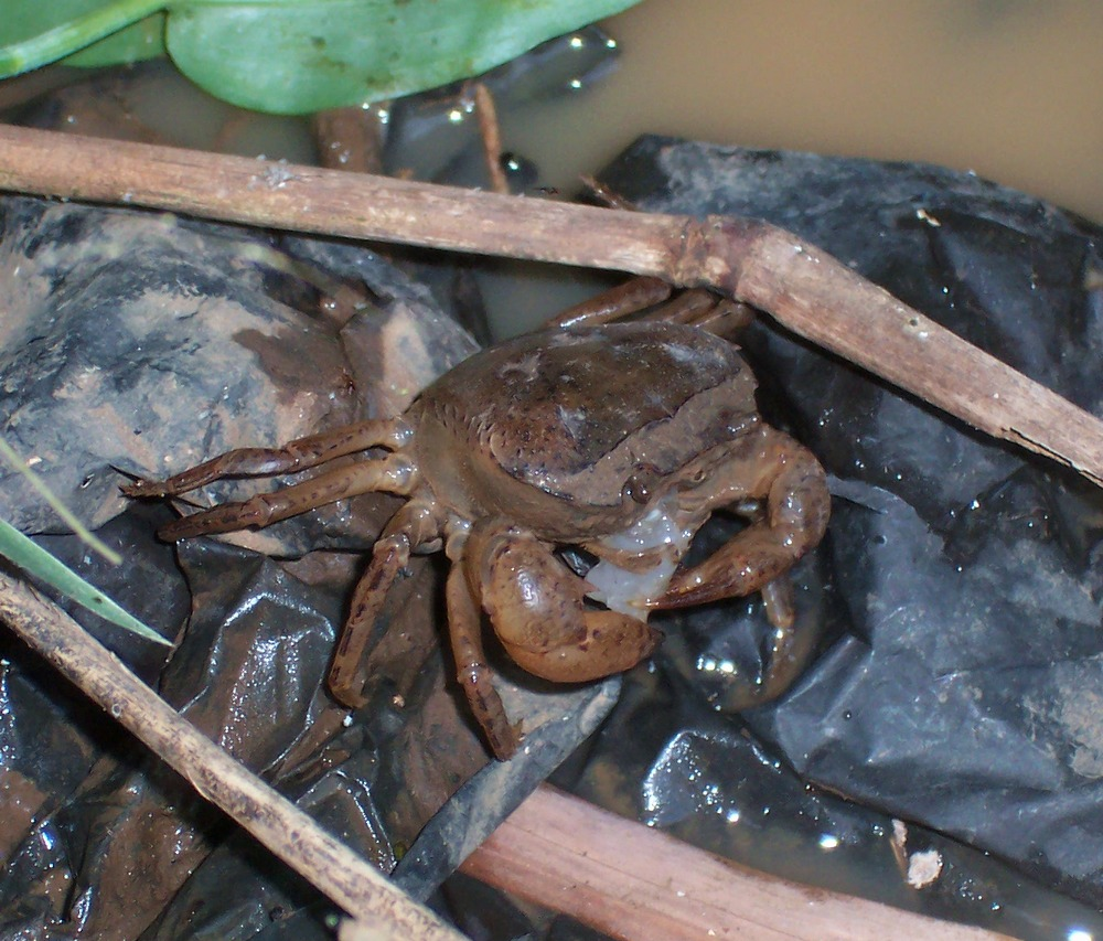 Paddyfield's crab, Parathelphusa convexa, amongst debris in small ditch. Bogor, West Java